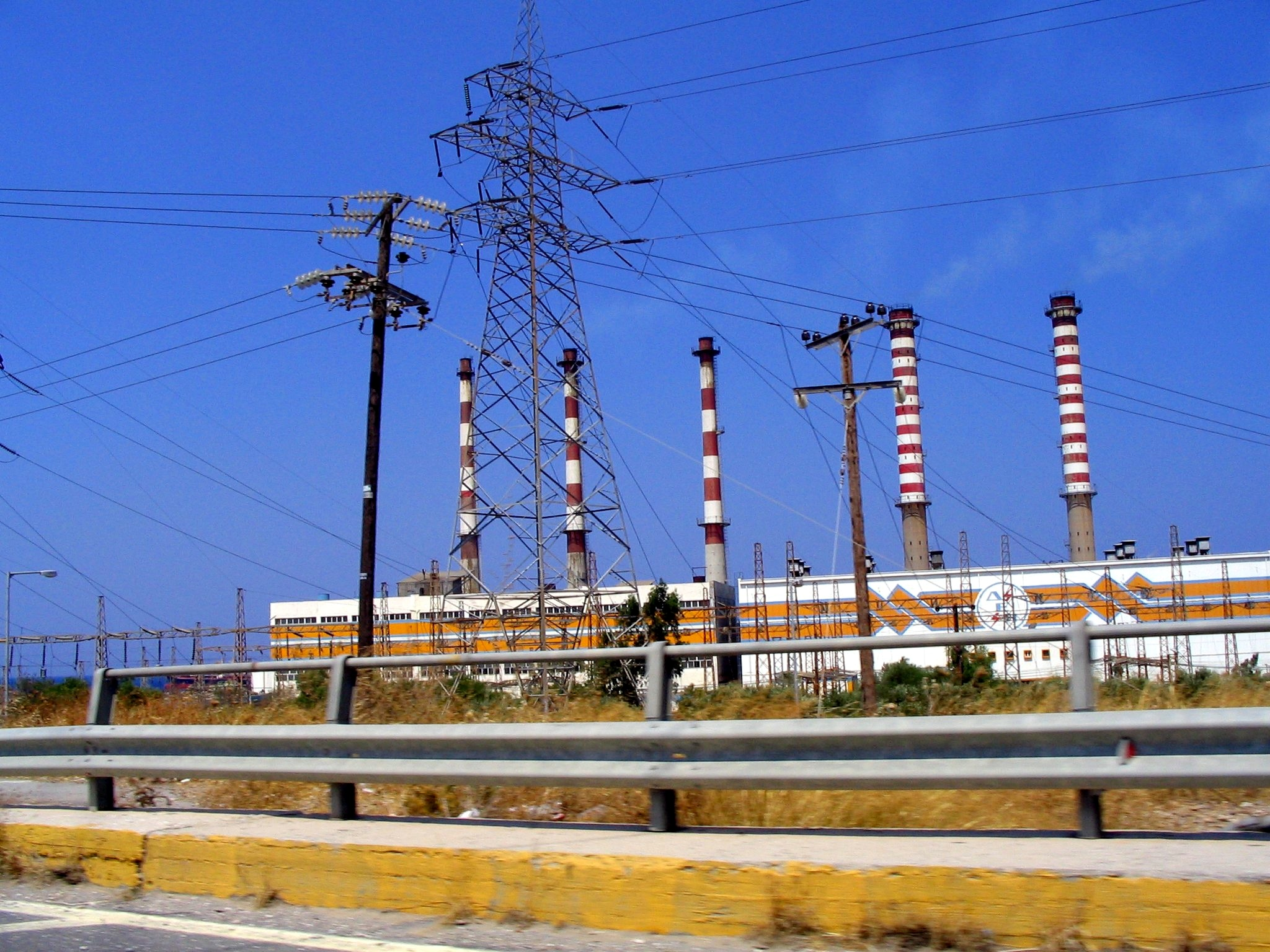 Coal-fired power plant near Herakleion, Crete